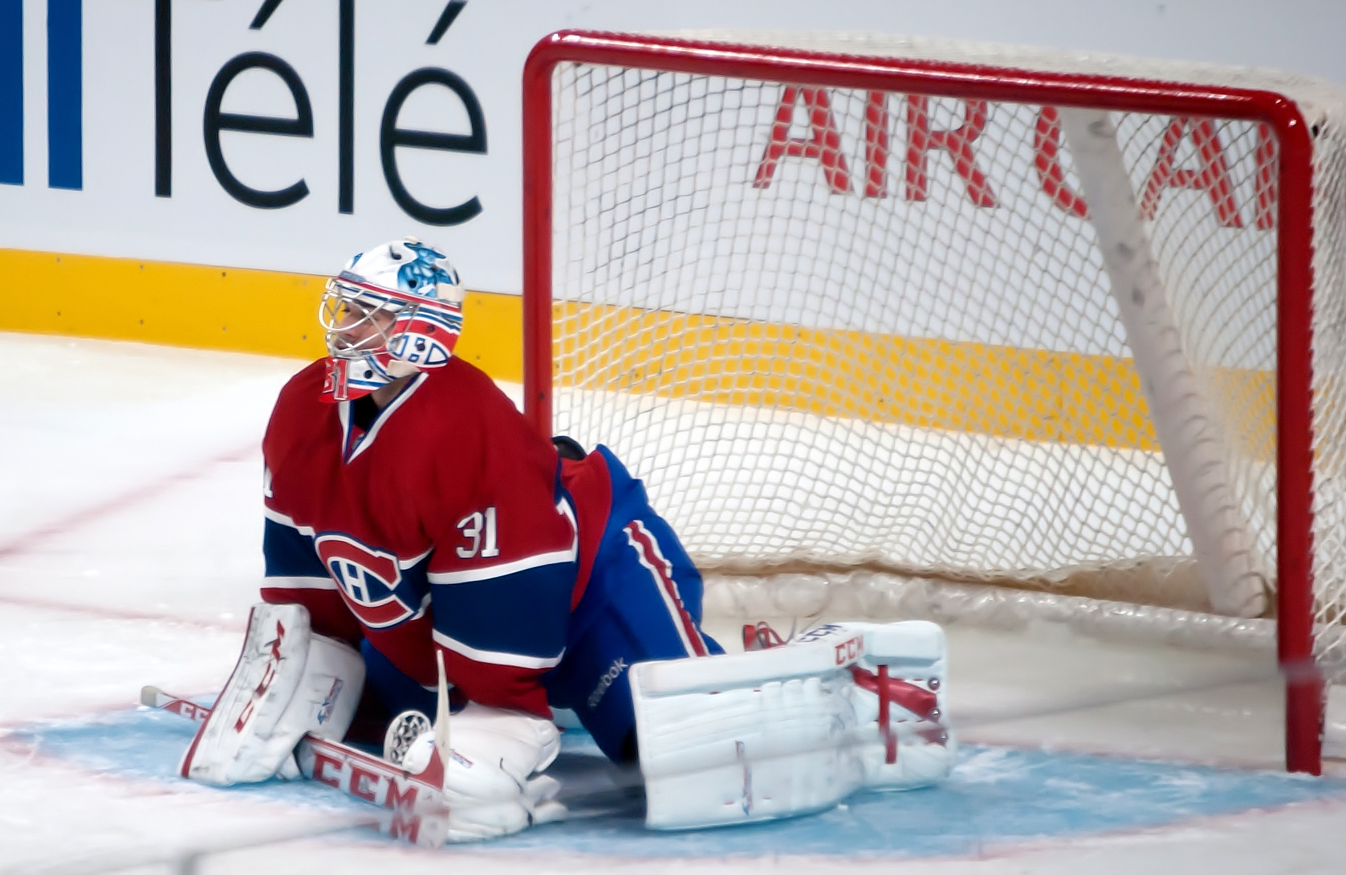 Montreal Canadiens goaltender Carey Price during a practice with his team.